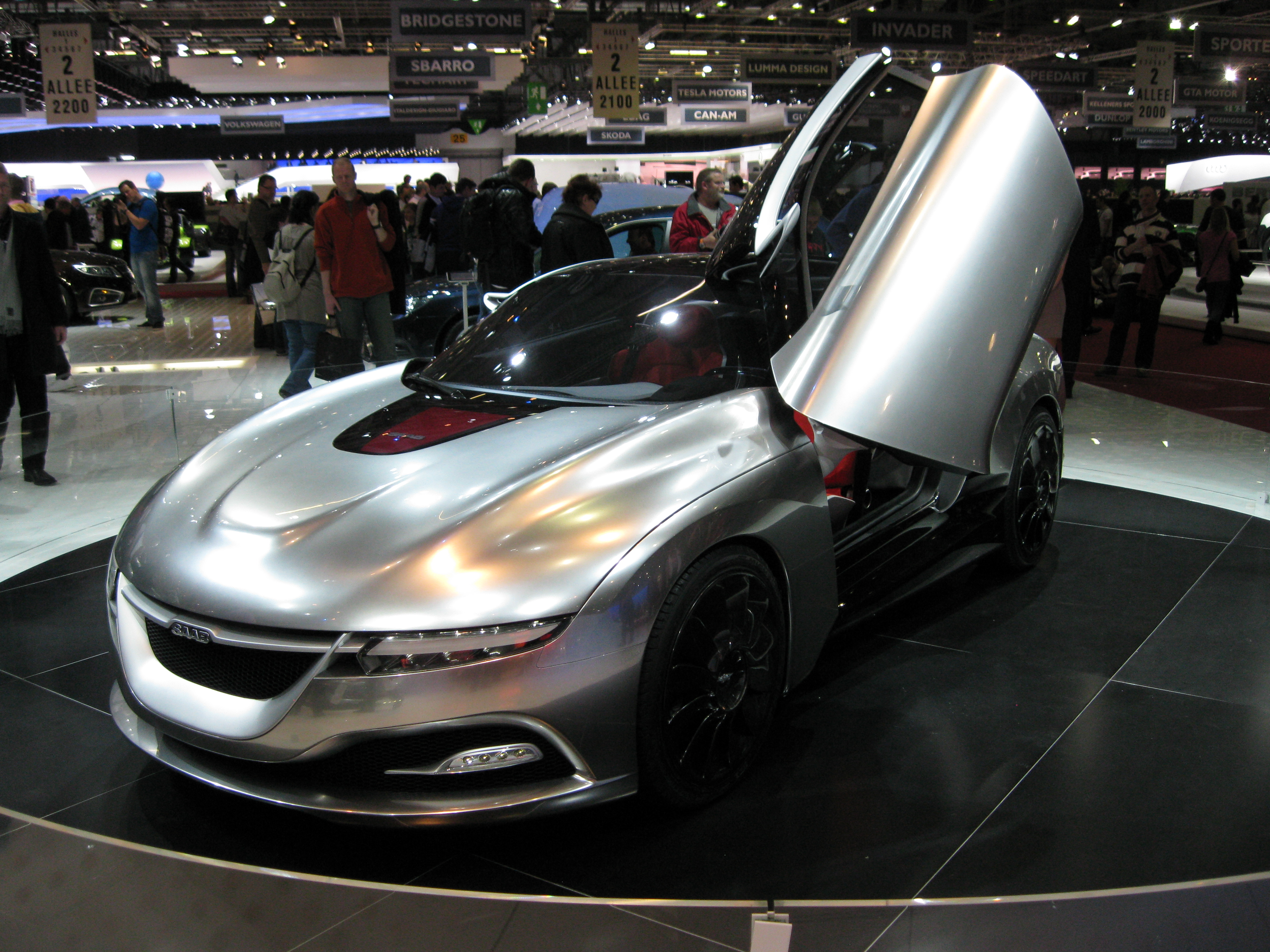 Geneva Motor Show 2011